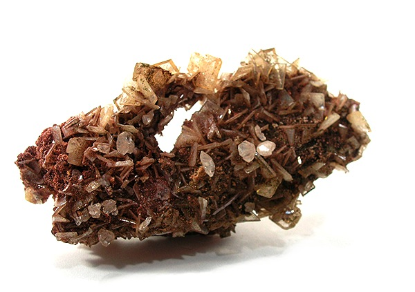 Wulfenite, Neotocite, Cerussite Locality: Chvaletice, Pardubice Region, Bohemia (Böhmen; Boehmen), Czech Republic (Locality at ) Wulfenite from the Czech Republic is not all that common, but this matrix piece is covered in transparent, tan crystals up to .8 cm across. There are also several gemmy, colorless calcite crystals which reach .5 cm across - cerussite! The matrix is comprised of neotocite, which is a rare manganese – iron silicate. A very rare and probably old specimen. I have never seen one before. 7.8 x 4 x 2.3 cm